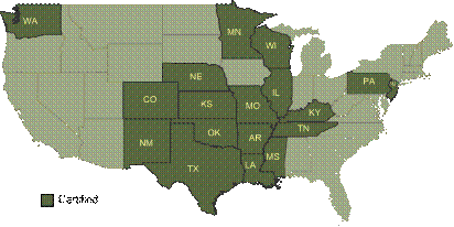 Coverage Map for Wholesale Operations of Big River Telephone Company, LLC.